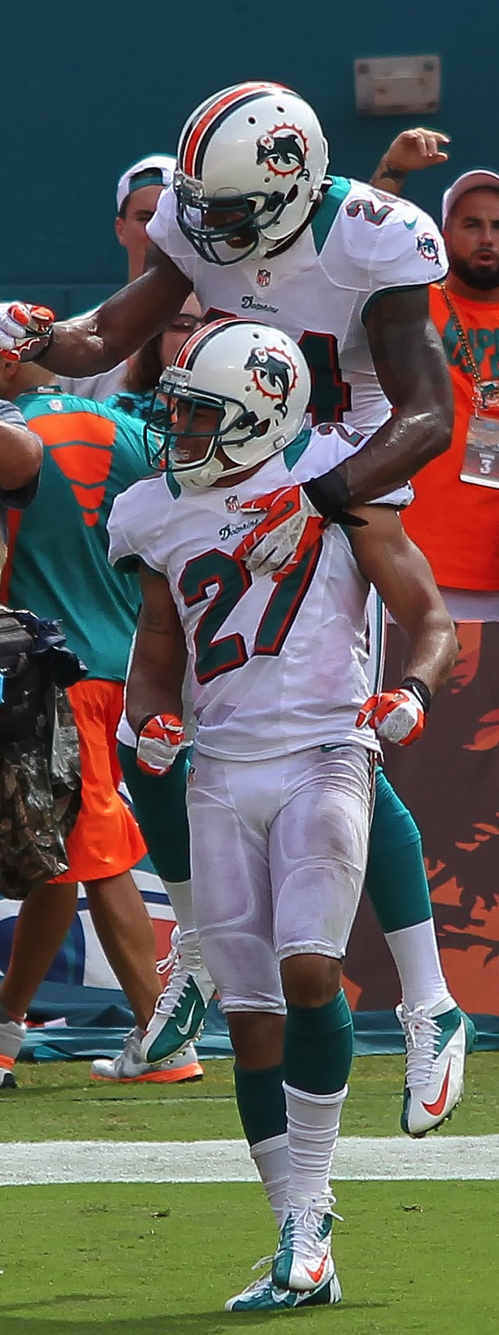 Miami Dolphins cornerbacks, Sean Smith and Jimmy Wilson, celebrating in a game against the Oakland Raiders in 2012.